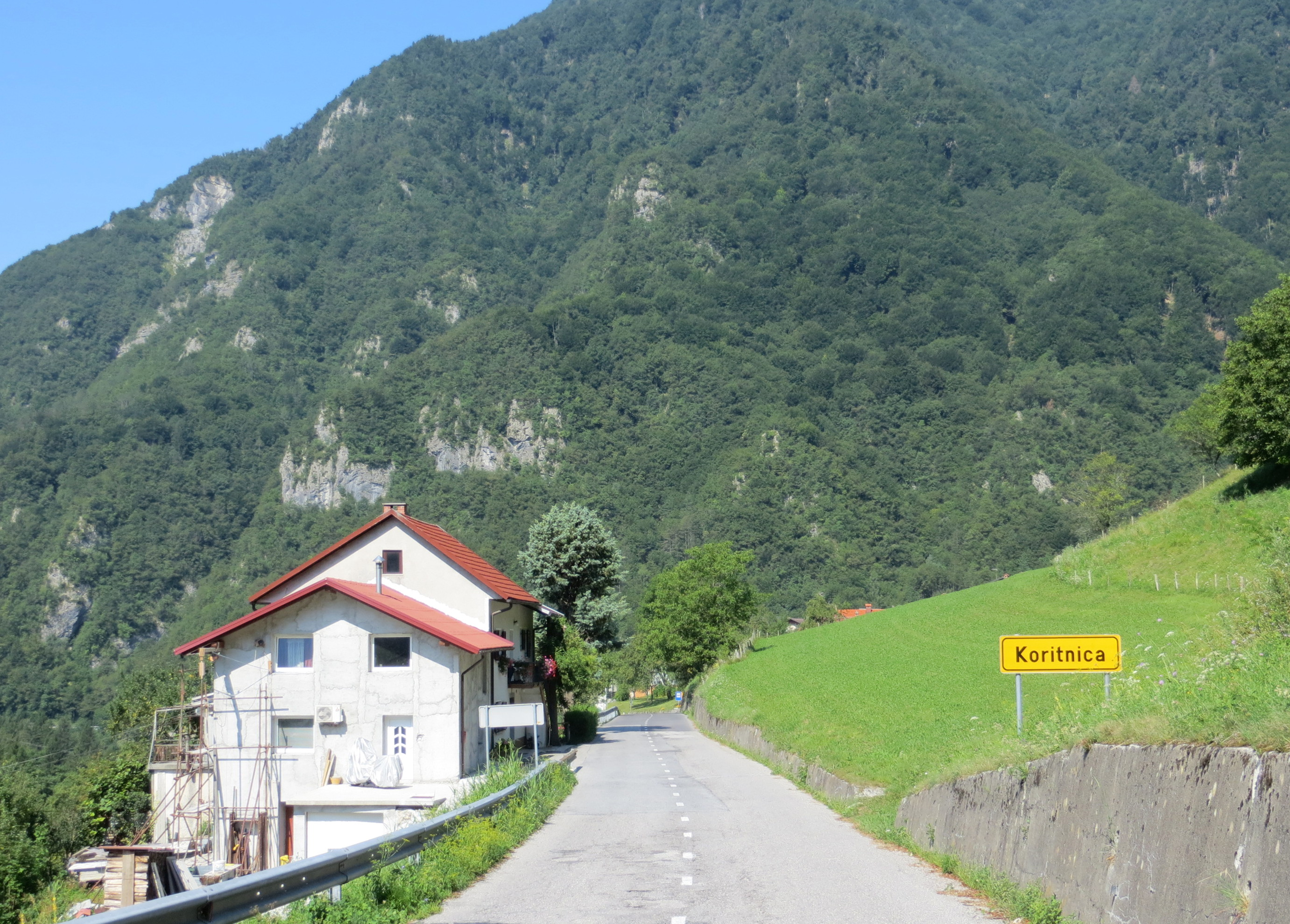 Koritnica, Municipality of Tolmin, Slovenia